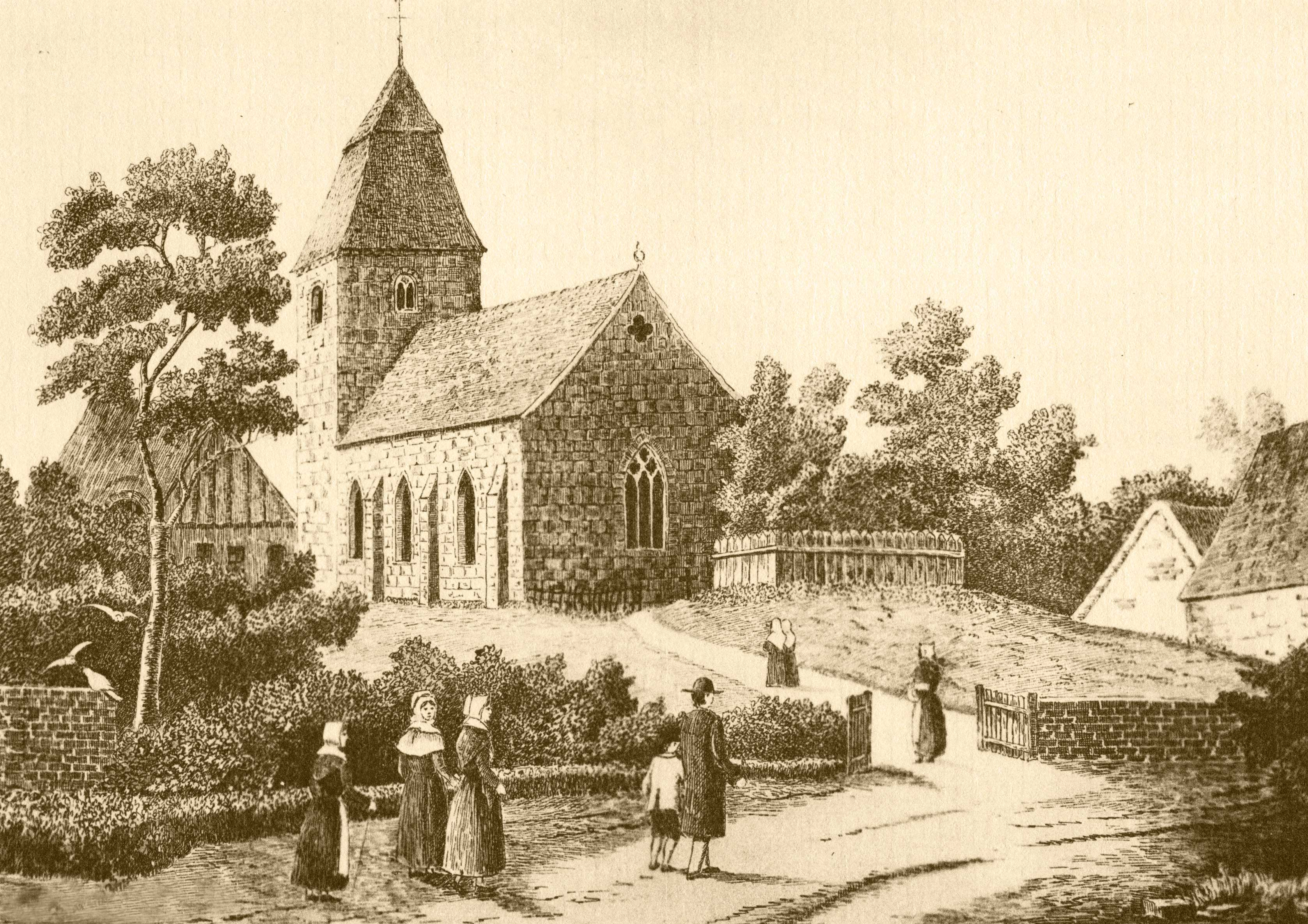 Church of Sainte-Véronique (Liège)